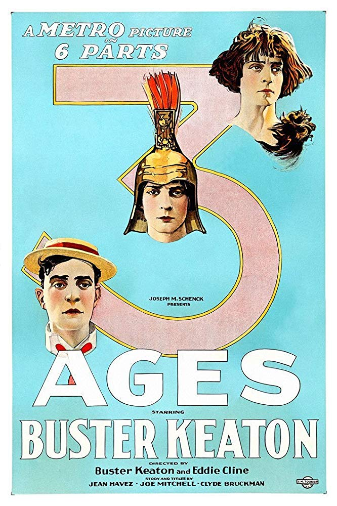 Promotional poster for the Buster Keaton film Three Ages.